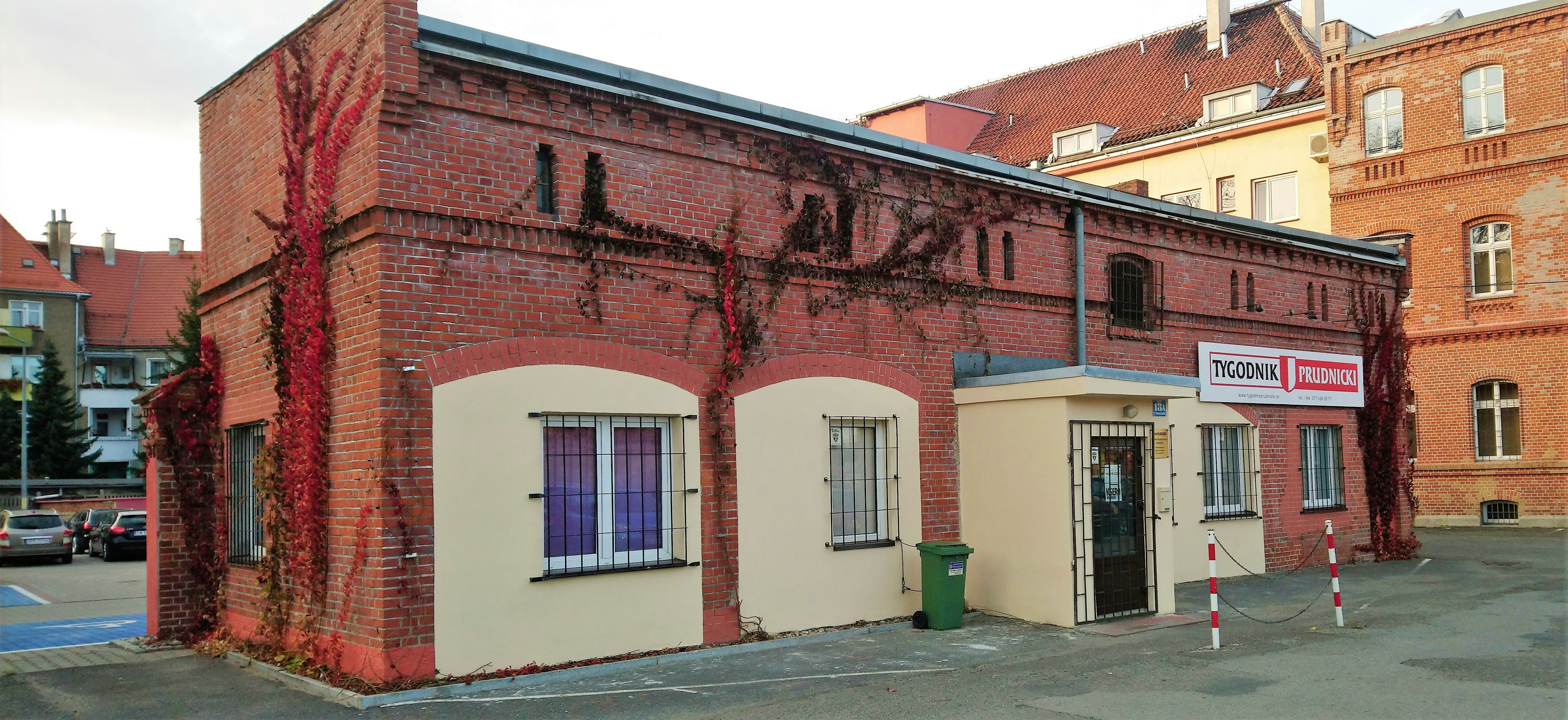 13A Tadeusza Kościuszki Street in Prudnik